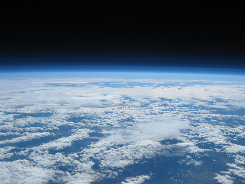 Earth and clouds seen at 100,000 feet above Oregon, USA